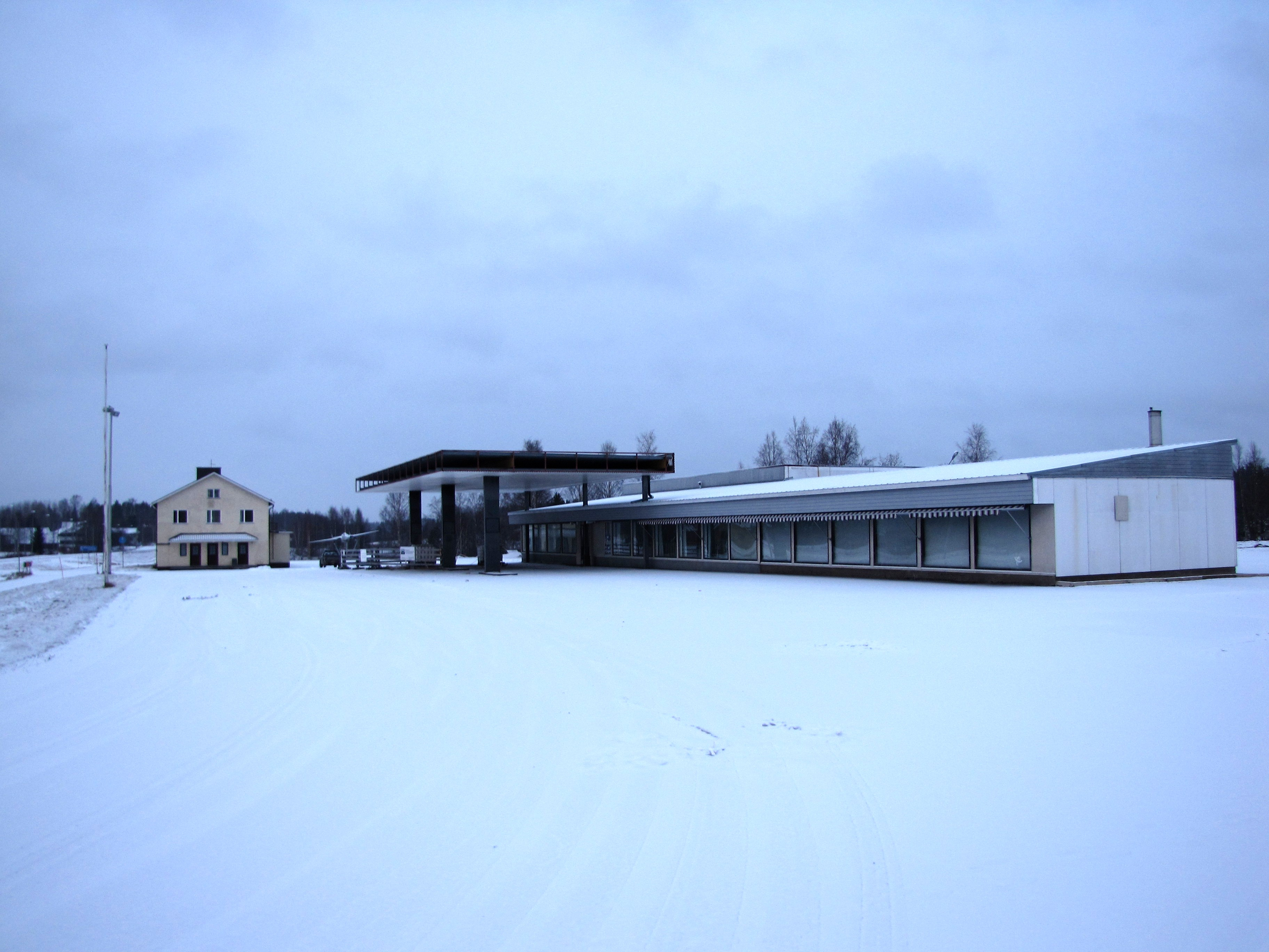 Former Esso's petrol station in Koskue village, Jalasjärvi, Finland.